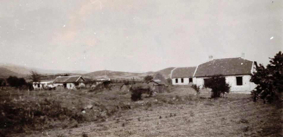 Stepanovo, village in Macedonia, (nowadays with name Prdejci) 1931 This media file is produced by Wikipedian in Residence in Category:Wikipedian in Residence at DARM in 2016.